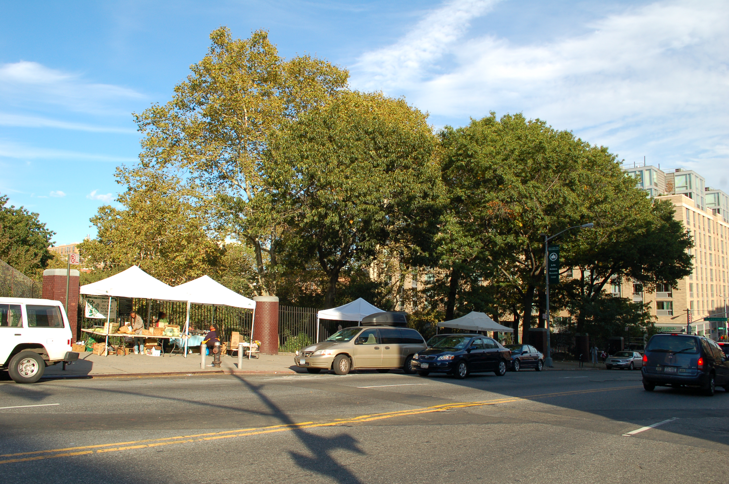 Looking northeast across 145th Street along Jackie Robinson Park in New York City